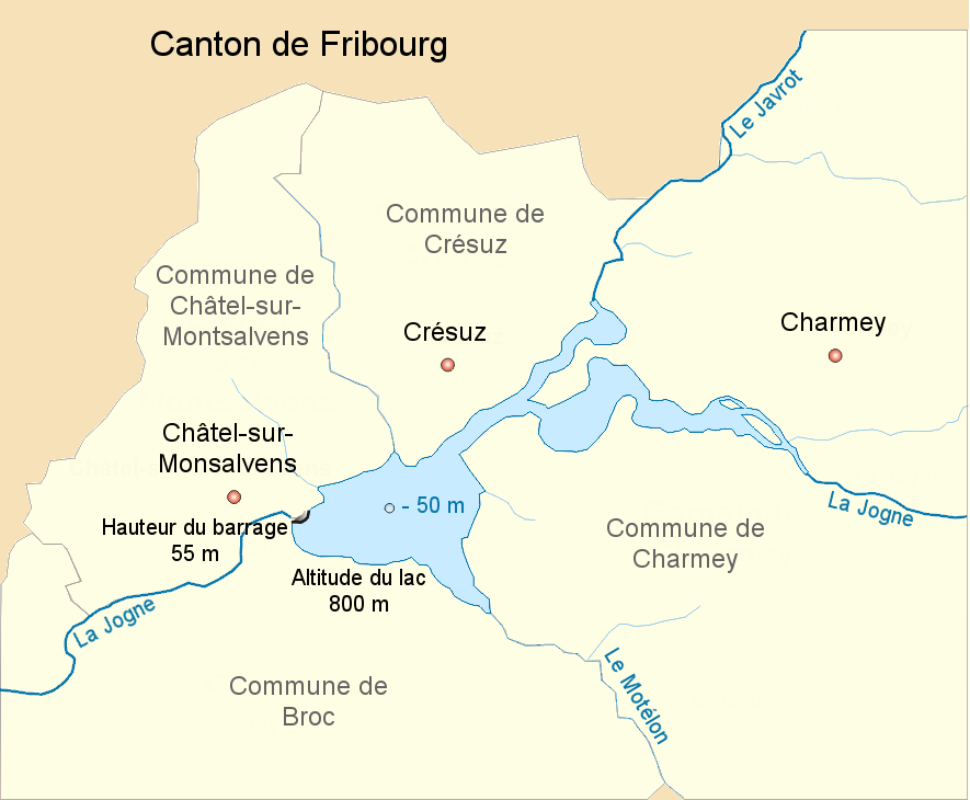 Map of Montsalvens Lake, Switzerland.